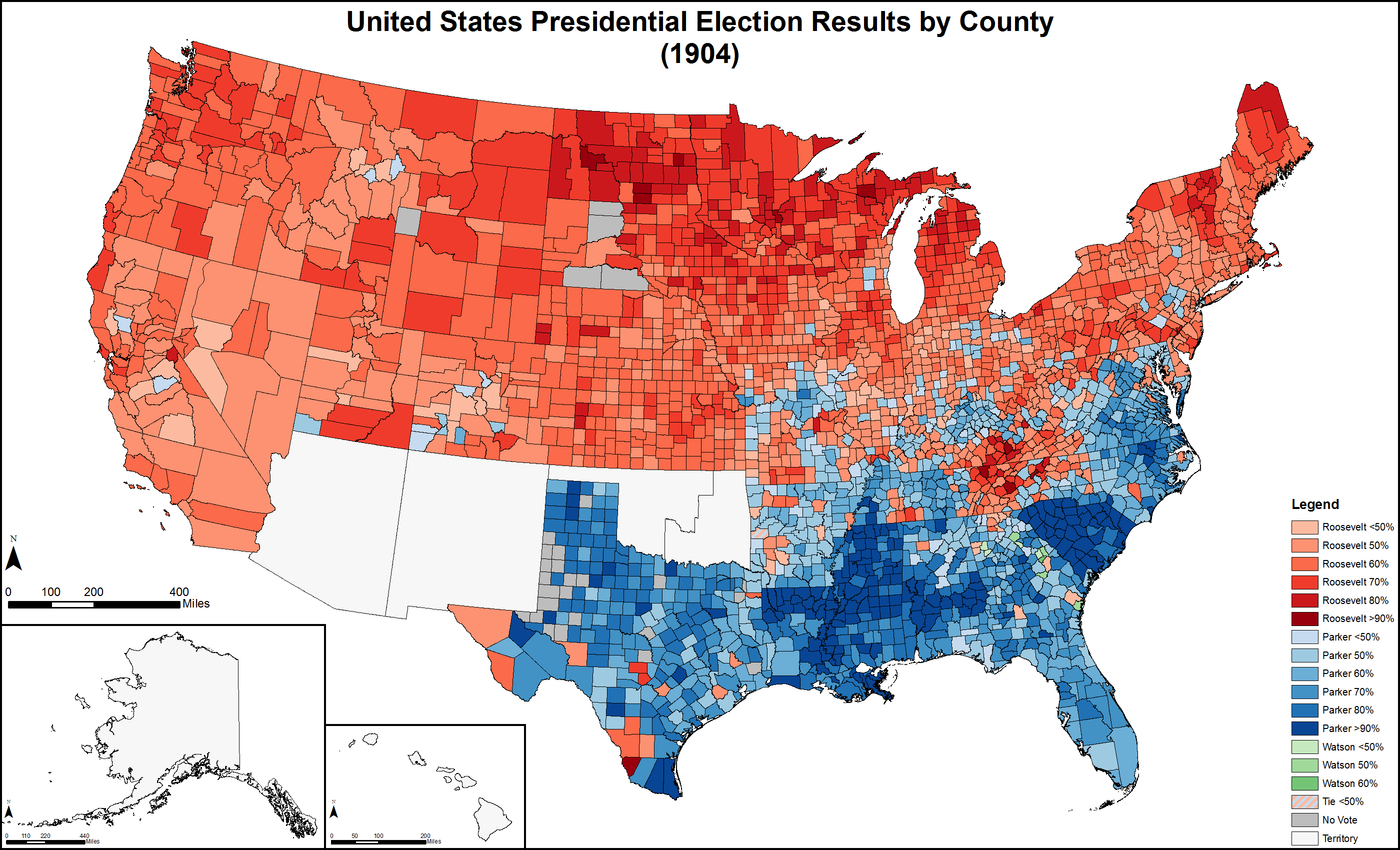 Presidential election results by county (1904). Colors based on Colorbrewer 2.0.